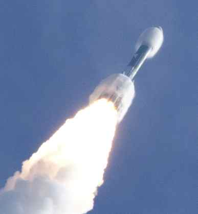 CAPE CANAVERAL, Fla. – The United Launch Alliance Delta II Heavy rocket propels NASA’s twin Gravity Recovery and Interior Laboratory (GRAIL) mission into the clouds over Space Launch Complex 17B on Cape Canaveral Air Force Station in Florida. The spacecraft launched at 9:08:52 a.m. EDT Sept. 10. GRAIL-A will separate from the second stage of the rocket at about one hour, 21 minutes after liftoff, followed by GRAIL-B at 90 minutes after launch. The spacecraft are embarking on a three-month journey to reach the moon. GRAIL will fly twin spacecraft in tandem around the moon to precisely measure and map variations in the moon's gravitational field. The mission will provide the most accurate global gravity field to date for any planet, including Earth. This detailed information will reveal differences in the density of the moon's crust and mantle and will help answer fundamental questions about the moon's internal structure, thermal evolution, and history of collisions with asteroids. The aim is to map the moon's gravity field so completely that future moon vehicles can safely navigate anywhere on the moon’s surface. For more information, visit